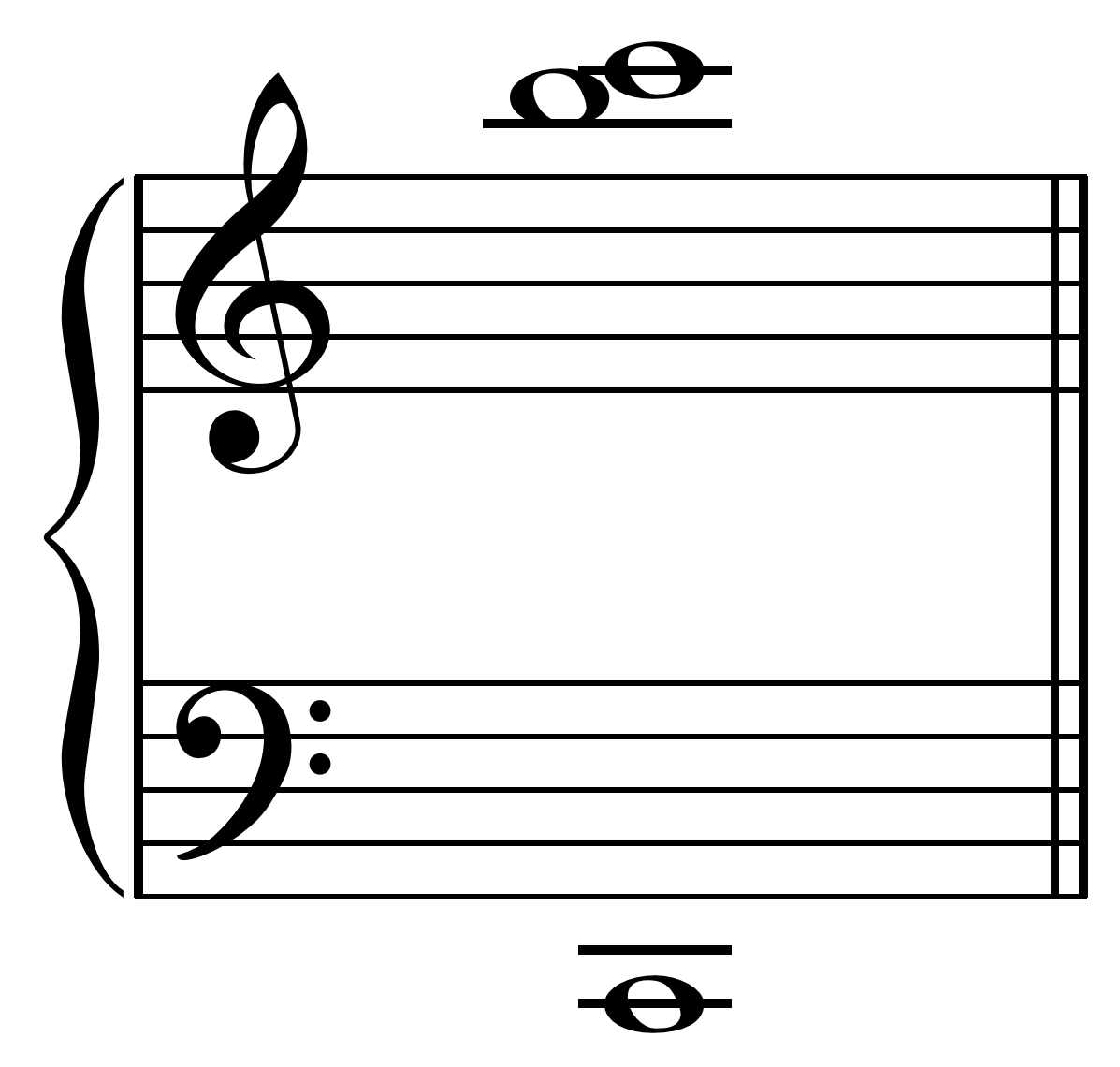 Created by Hyacinth (talk) using Sibelius 5. See: File:Just diatonic semitone on C.mid